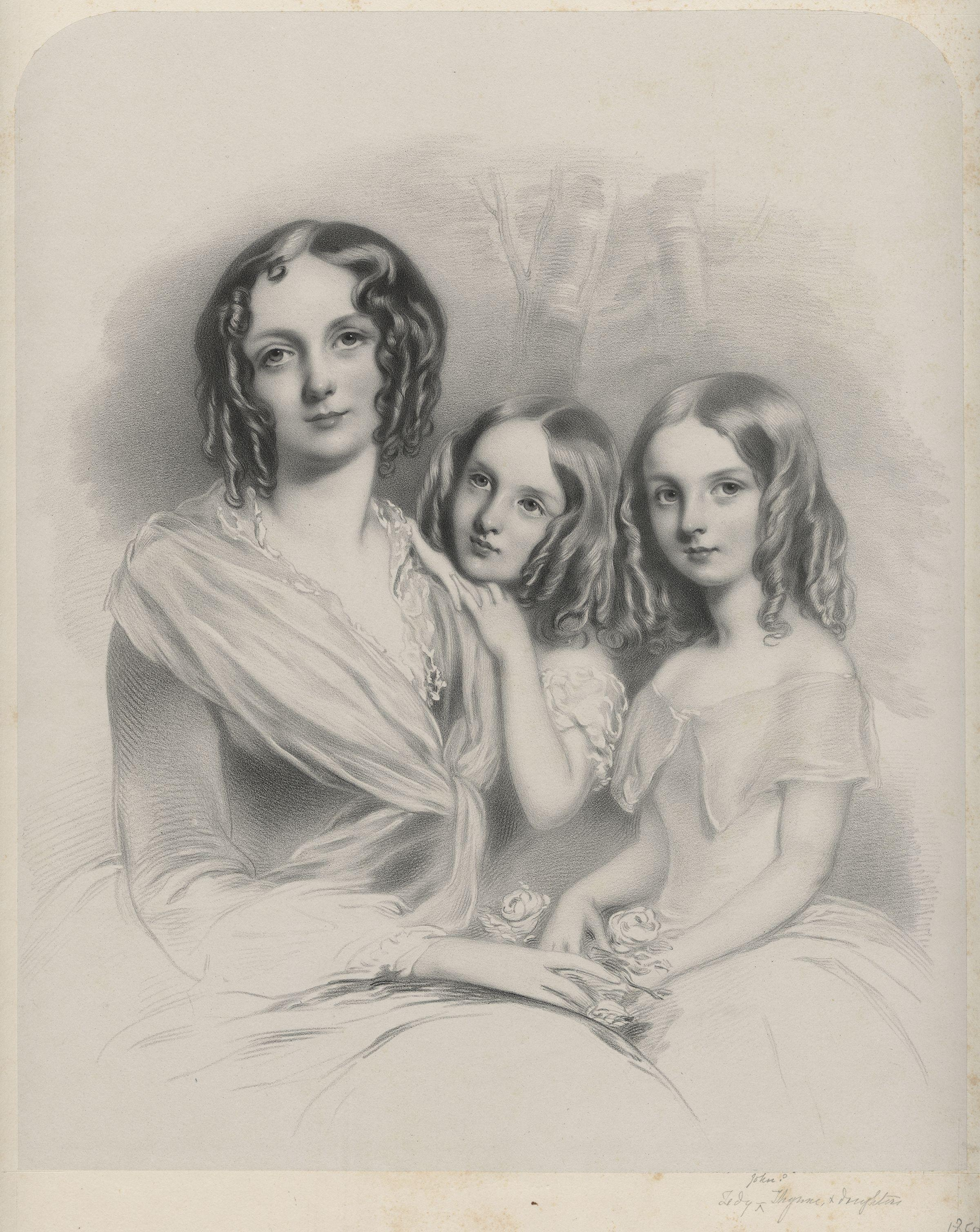 Anna Constantia (née Beresford), Lady Thynne; Selina Thynne; Emily Thynne, by Richard James Lane (died 1872), given to the National Portrait Gallery, London in 1956. All images in this batch have been confirmed as author died before 1939 according to the official death date listed by the NPG.